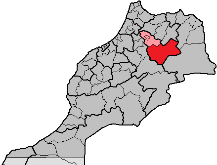 Location of the province Boulemane within the region Fès-Boulemane, Morocco. In total, Morocco has 16 regions, subdivided into 62 provinces and 13 prefectures.